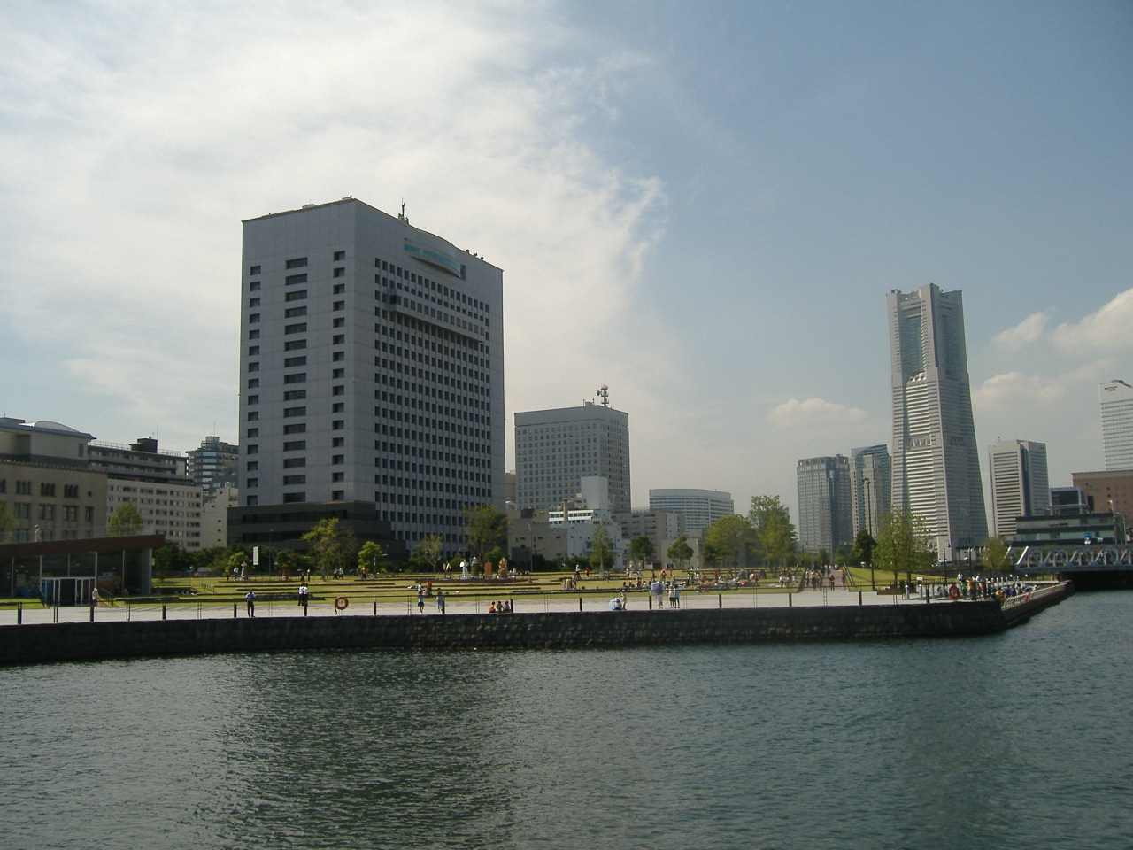 Zounohana park (Yokohama, Japan)